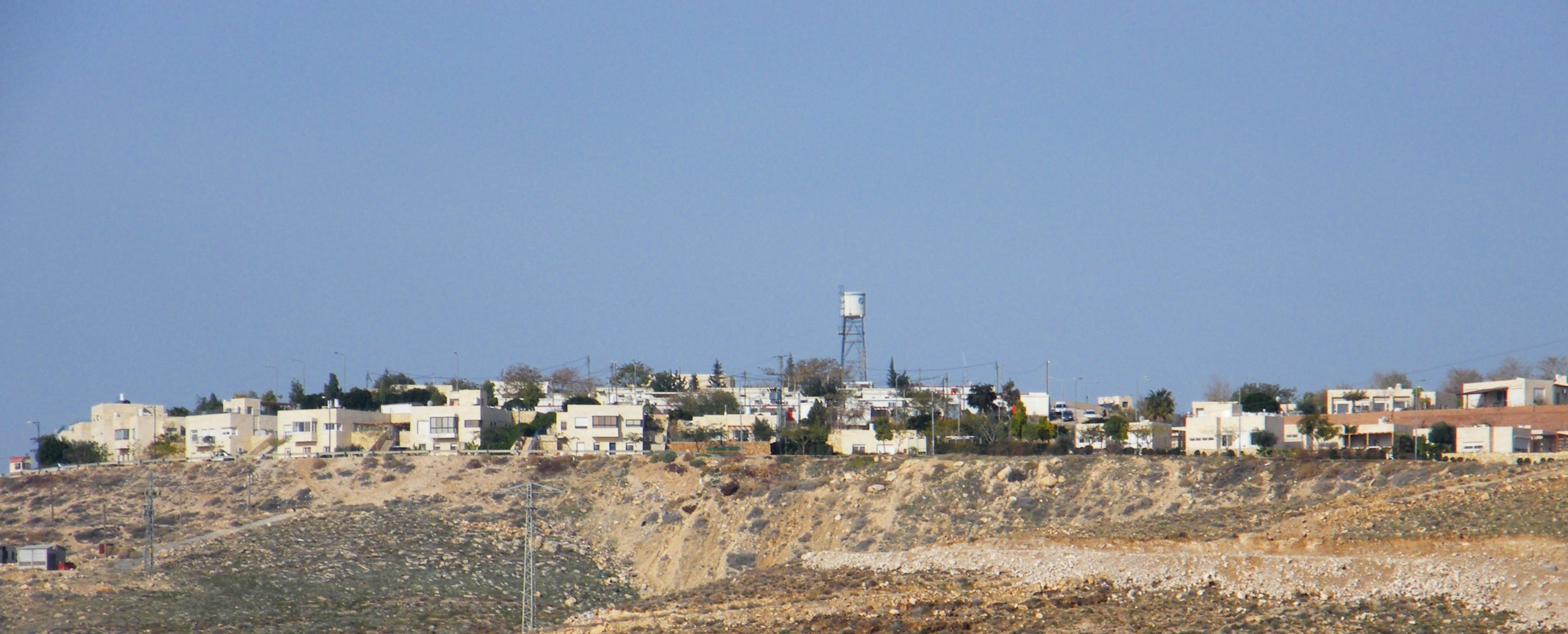 Nofei Prat, Israel